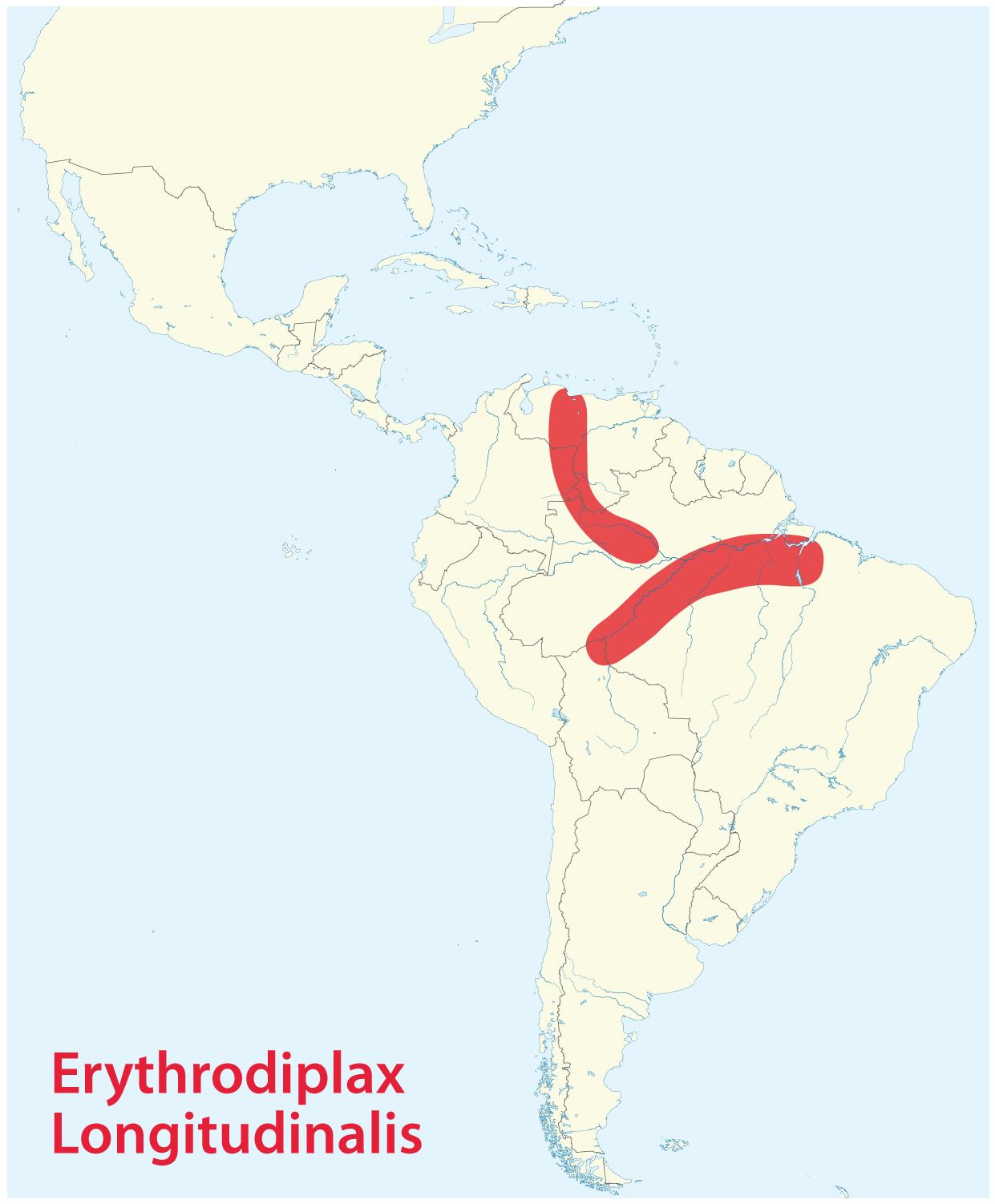 Distribution map of Erythrodiplax Longitudinalis